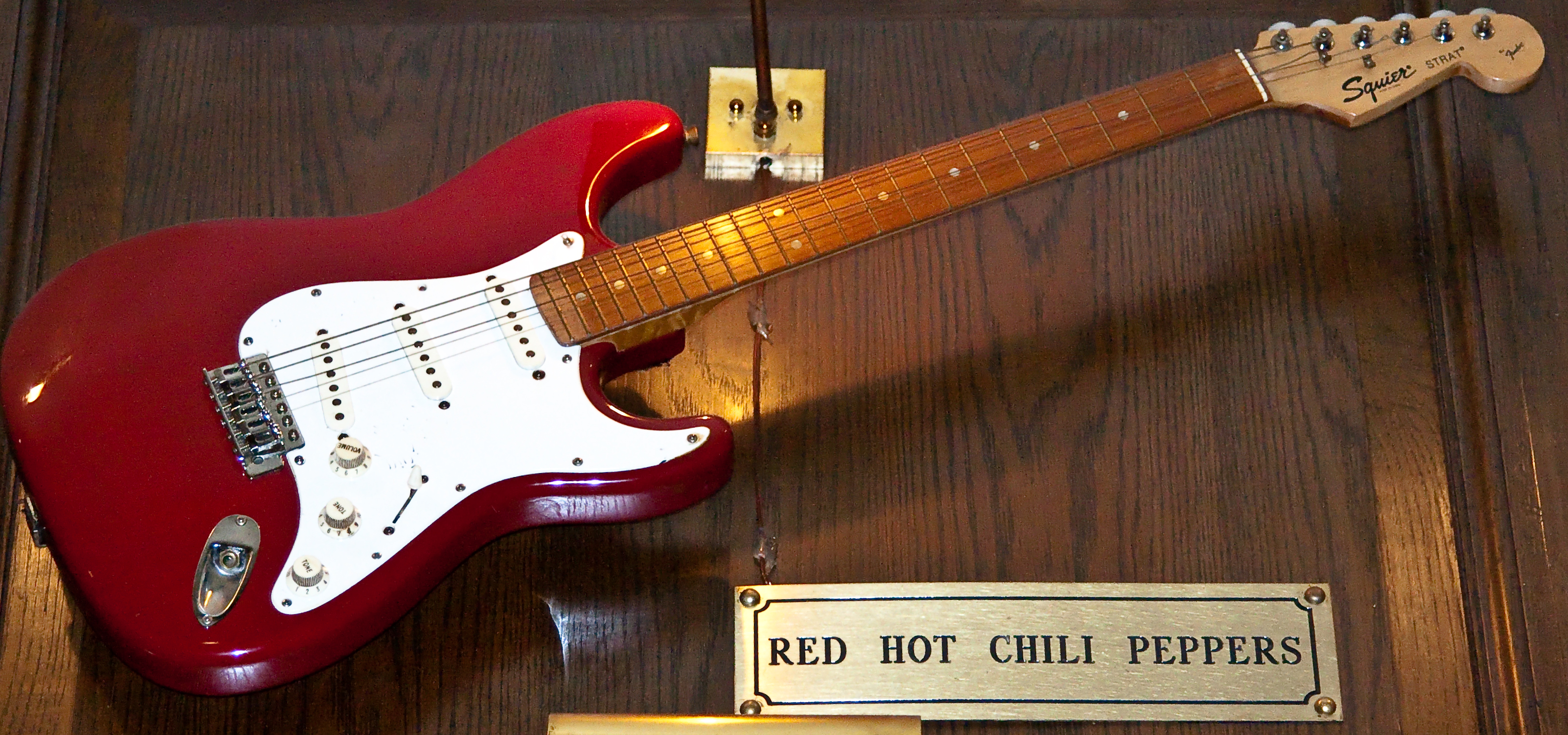 Red Hot Chili Peppers' Squier Stratocaster guitar, Hard Rock Café Caïro